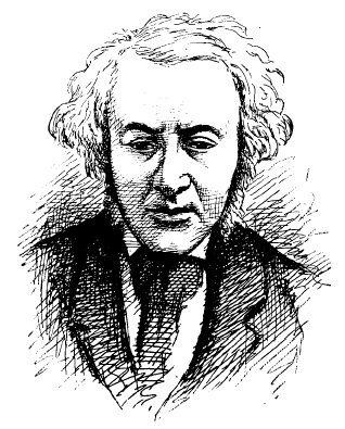 Scan of drawing from Poetry and Songs of Ireland (1887), now in the public domain